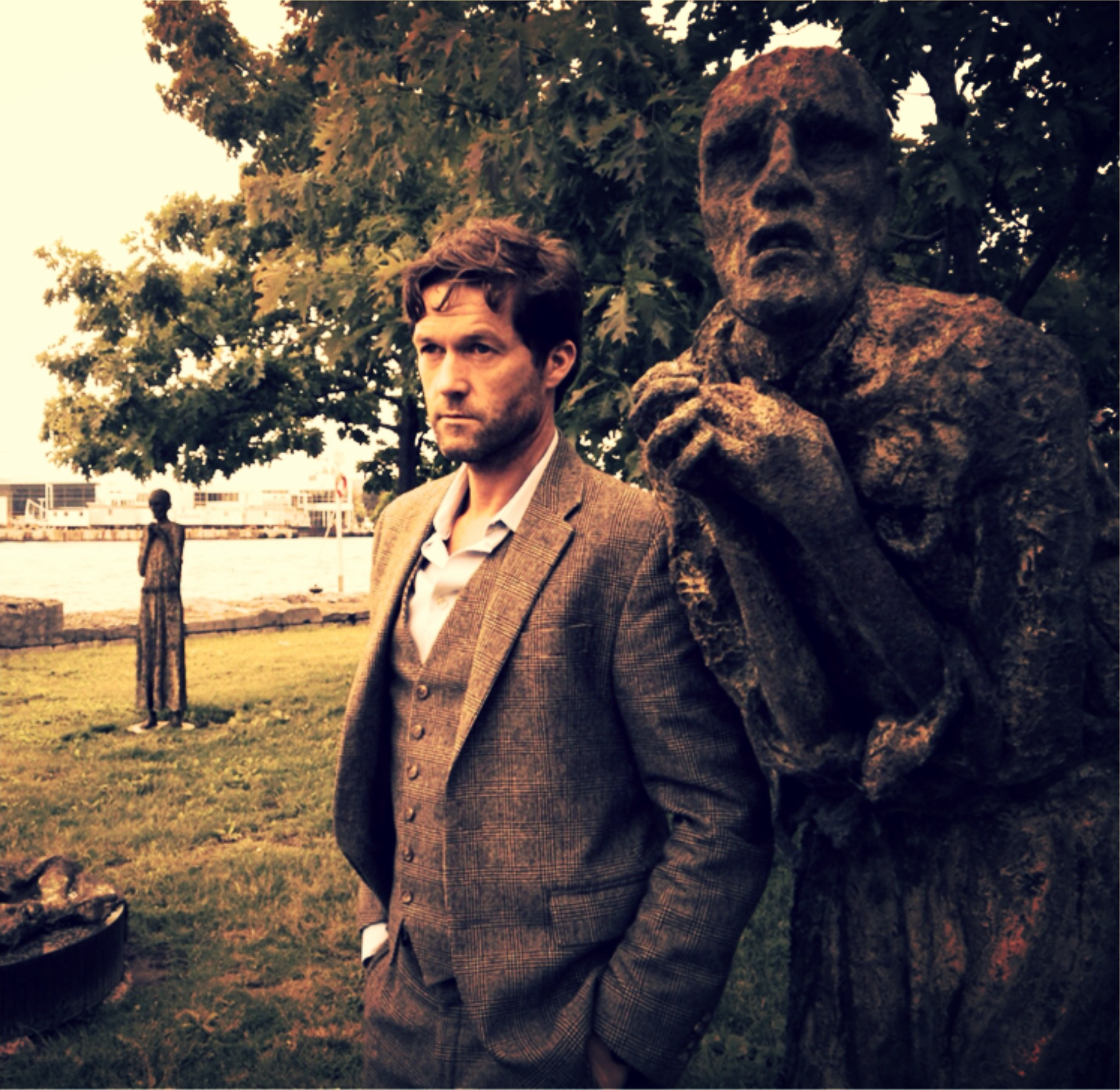 Collins at Toronto Ireland Park